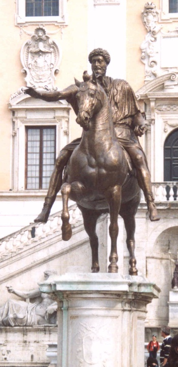 Description: (Copy of) statue of Marco Aurelio on a horse on the Capitoline Hill in Rome. Source: Own photo, made on 2004-05-01. Photographer: Dutch wikipedian Mtcv (me). Originally uploaded to Dutch wikipedia, text there: Foto van (replica van) het beeld van Marcus Aurelius te paard op de Capitolijn. Eigen foto (2004-05-01), GFDL.